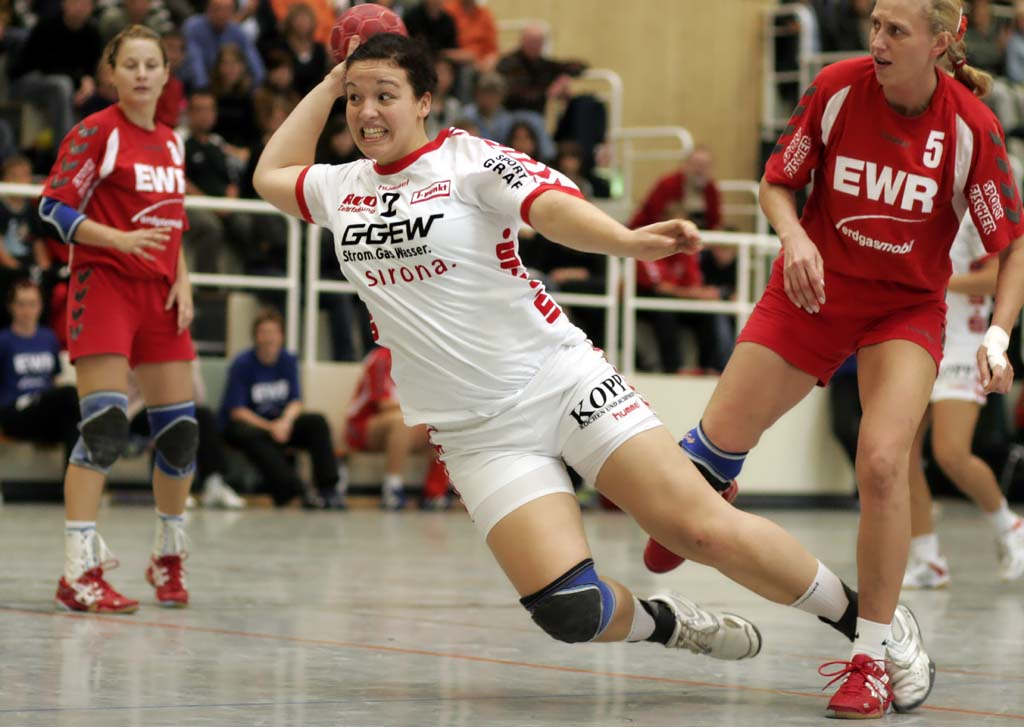 Stefanie Egger, Italian handball player in a DHB cup game versus Osthofen